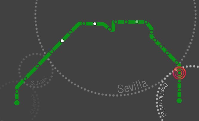 Location